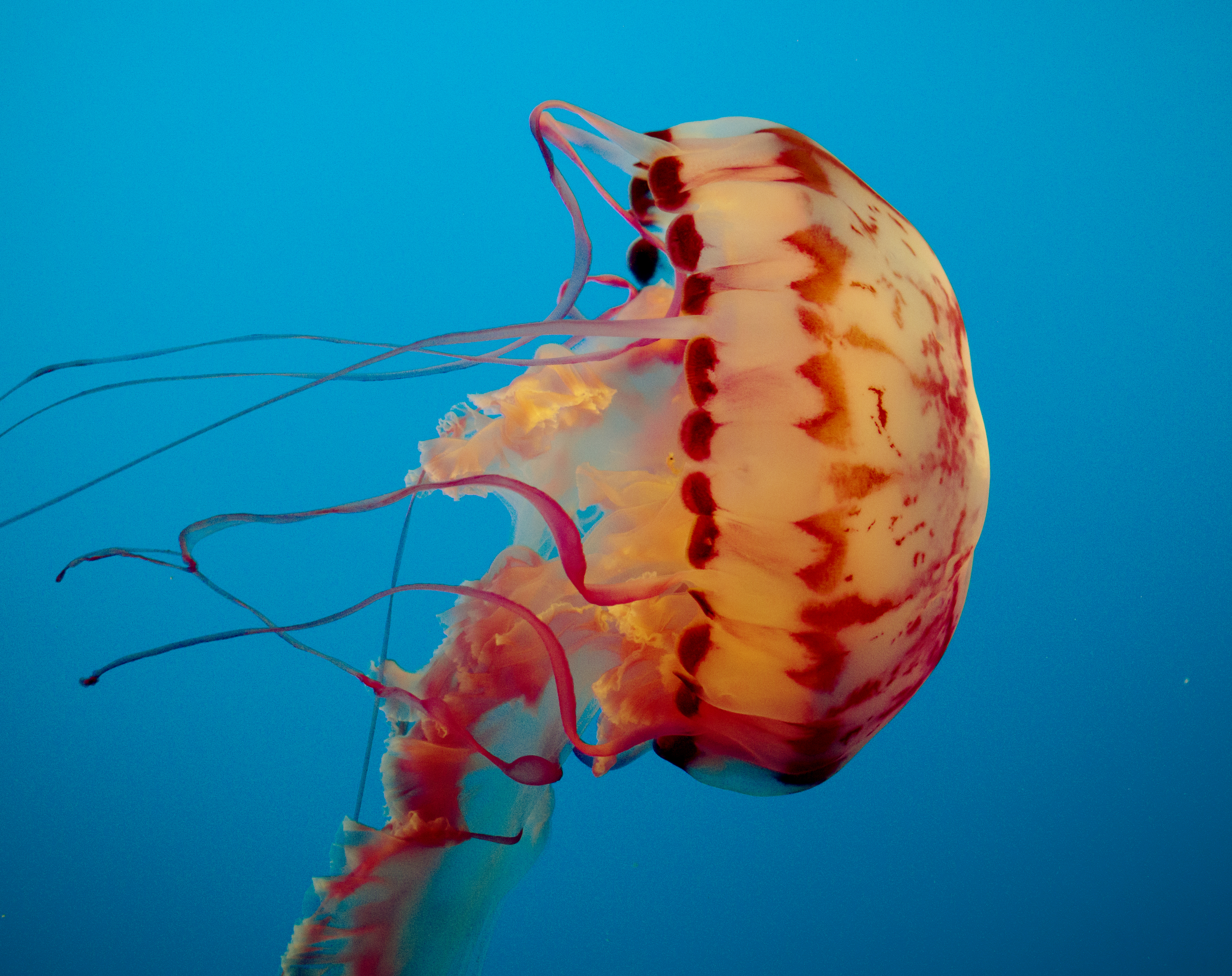 Pruple-striped jelly (Chrysaora colorata) at Monterey Bay Aquarium.